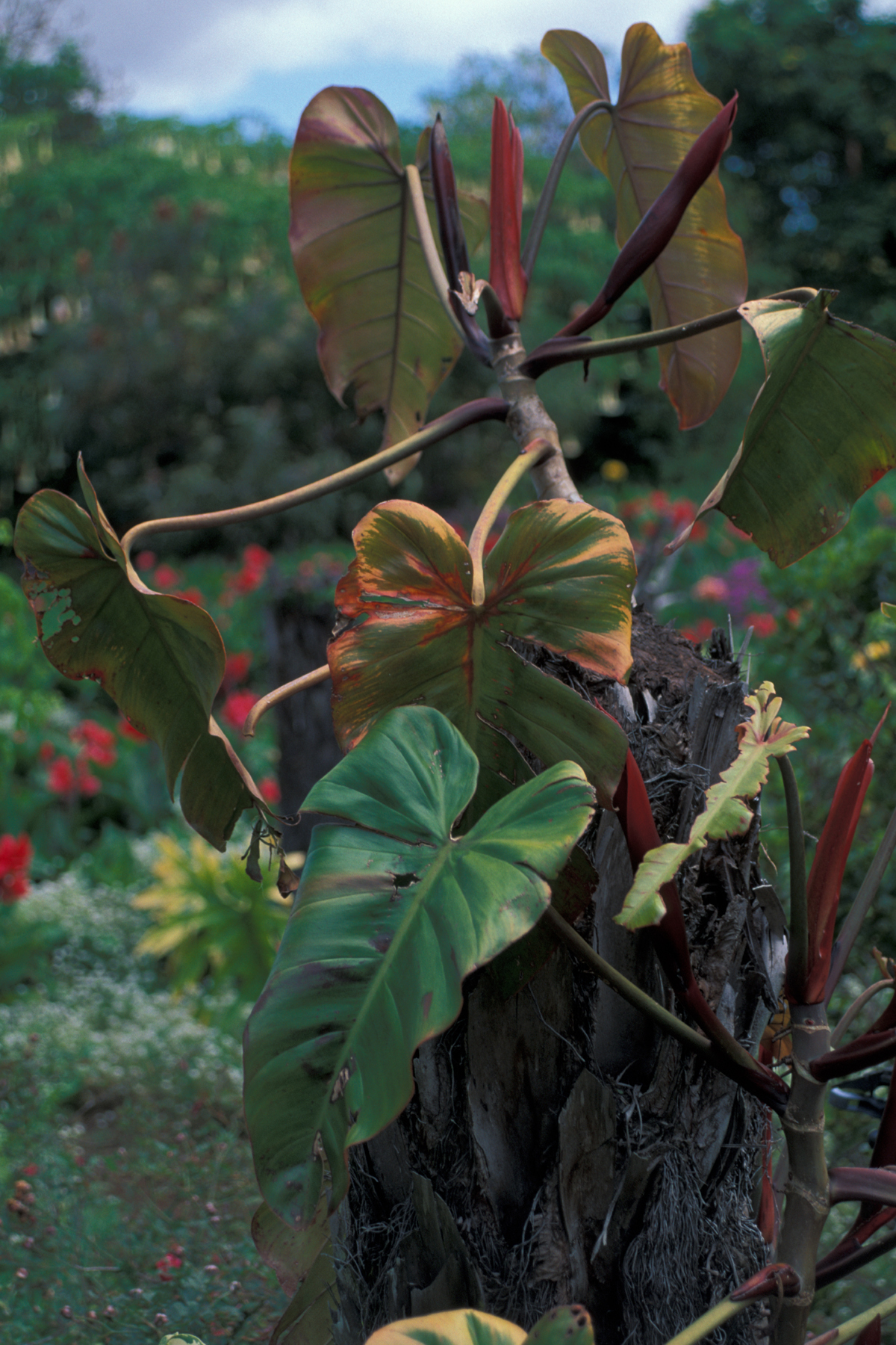 Philodendron sp. (leaves). Location: Maui, Enchanting Floral Gardens of Kula